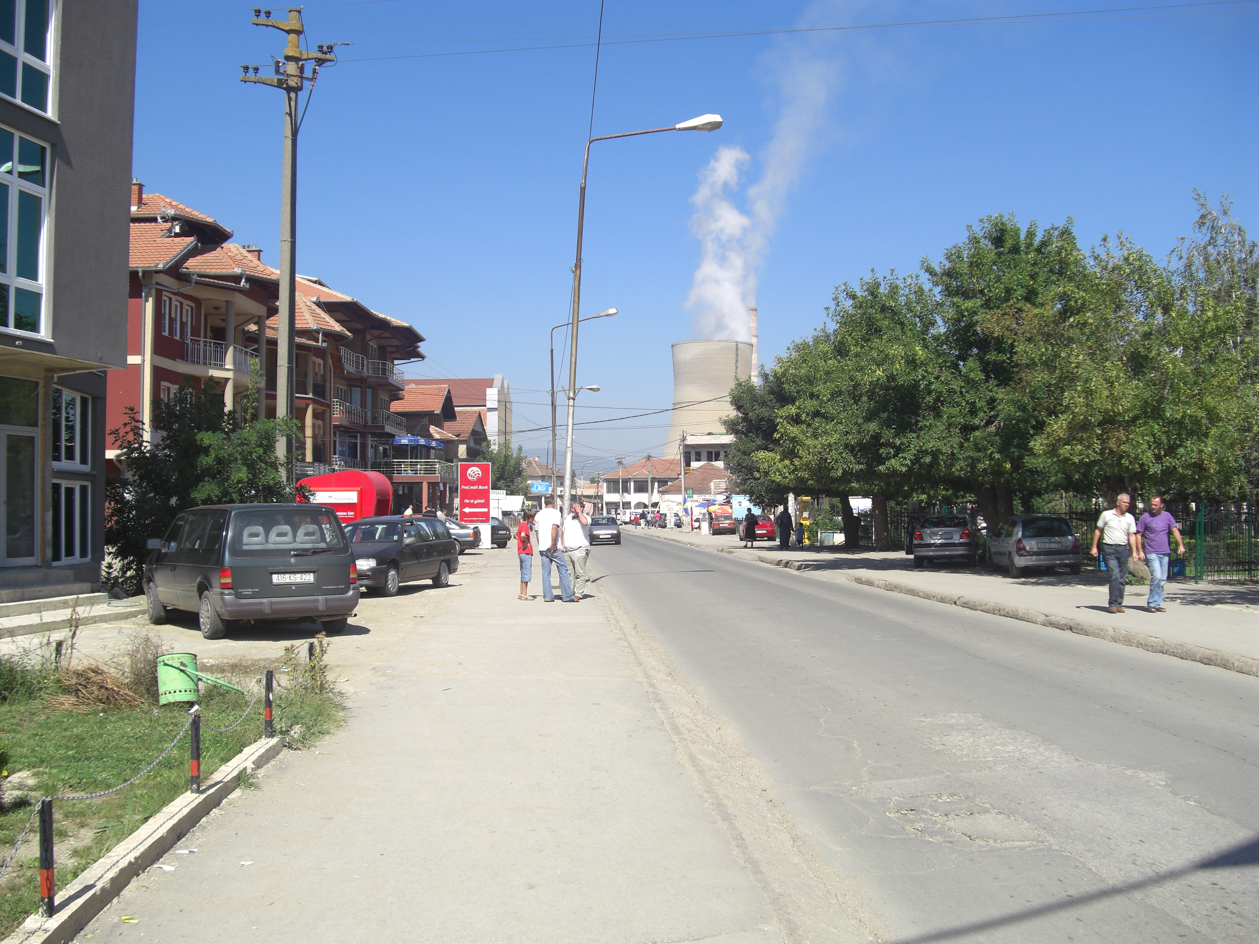 Main street in Kastriot/Obilic looking towards Kosovo B